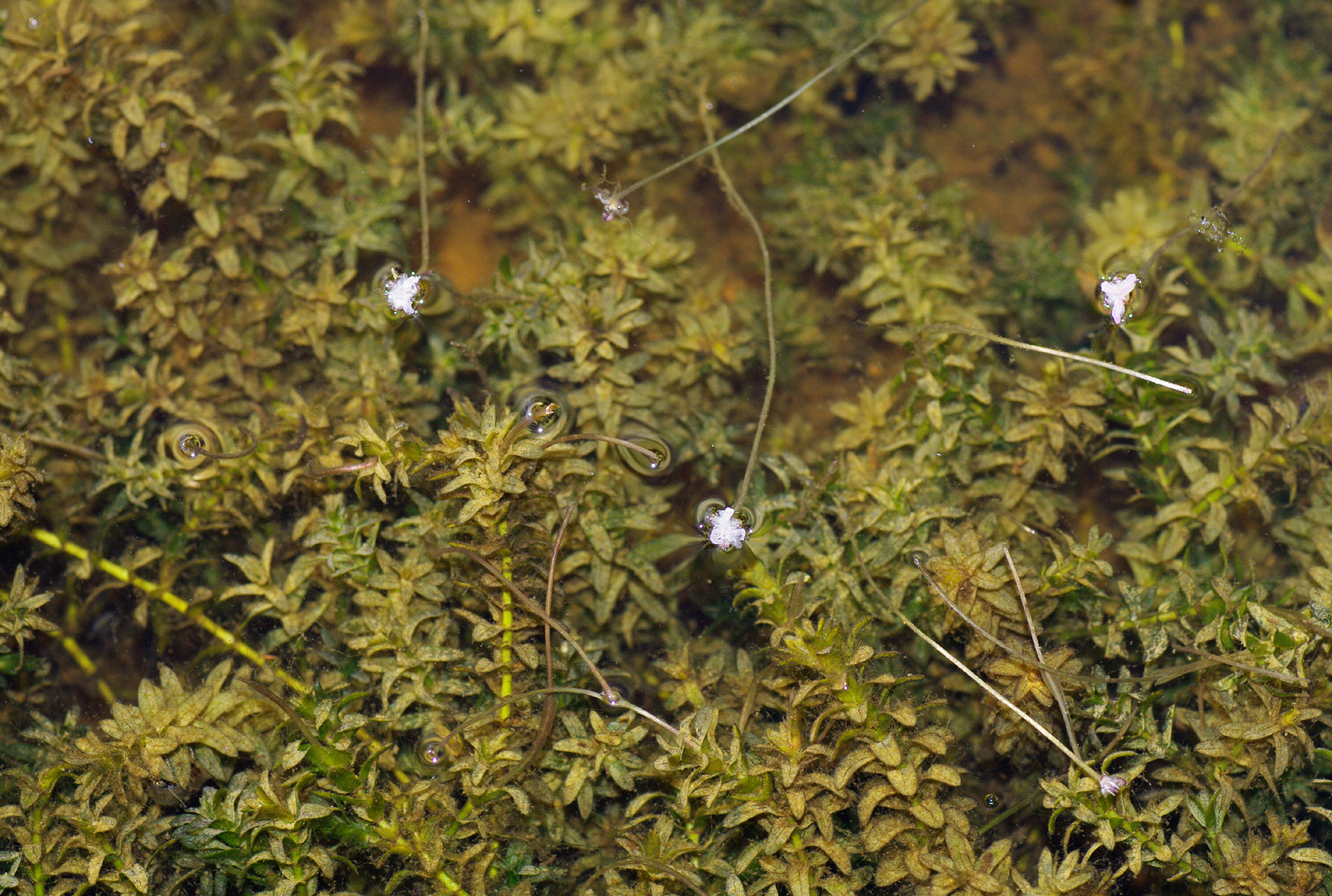 Flowering Canadian Waterweed (Elodea canadensis) in a shallow ditch. The plants have partly become encrusted in lime, apparently. That's why the leaves' surface look somewhat covered, in this case.